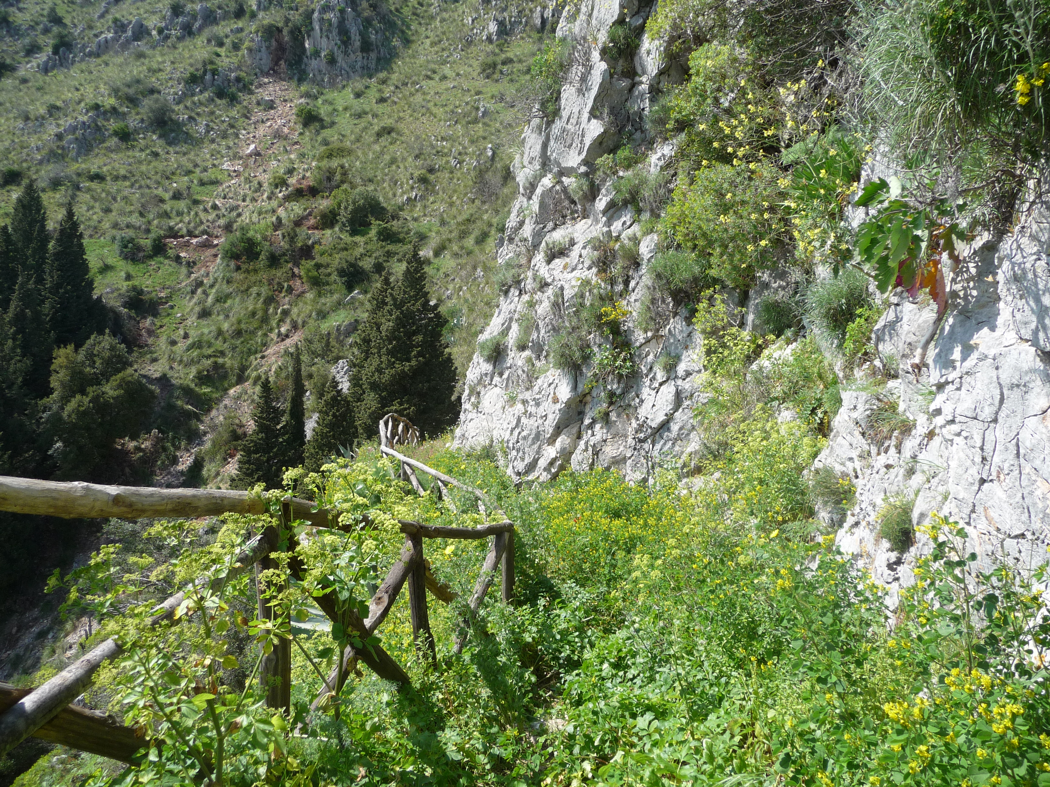 Basilian Path - Pazzano